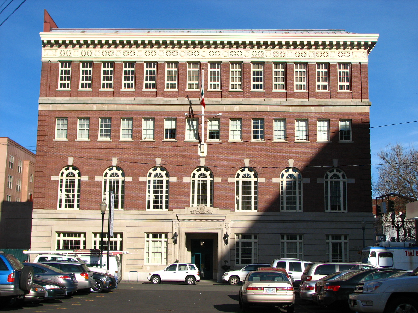 The historic Portland Police Block (built 1912), located at 209 Southwest Oak Street in Portland, Oregon, United States, is listed on the US National Register of Historic Places. It is the former headquarters of the Portland police bureau, and has been converted for offices.